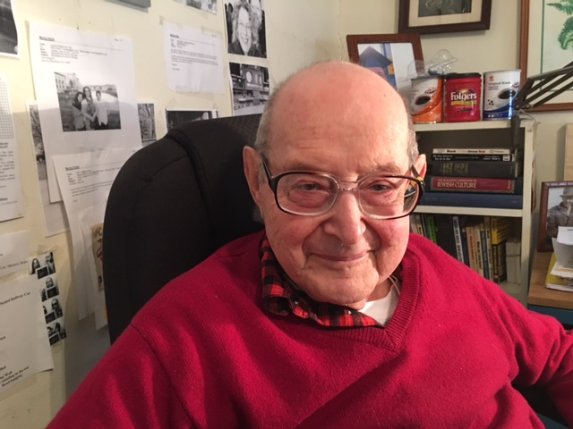 Murray Polner in his Long Island home in April, 2017. Photo by R. Polner.